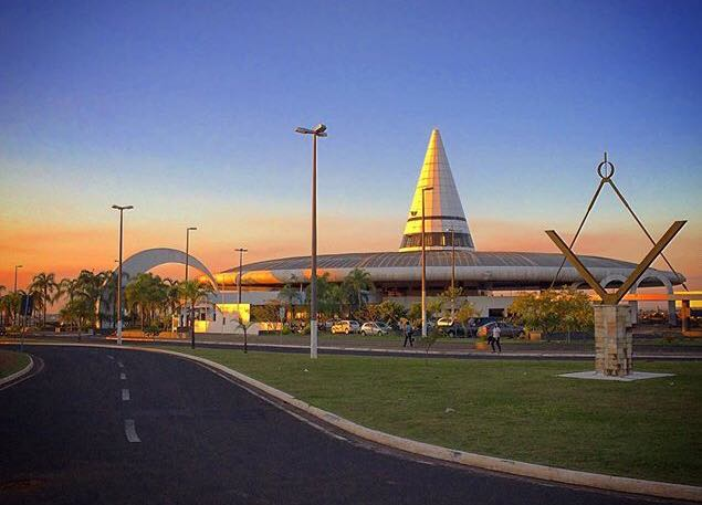 Marília Bus Terminal